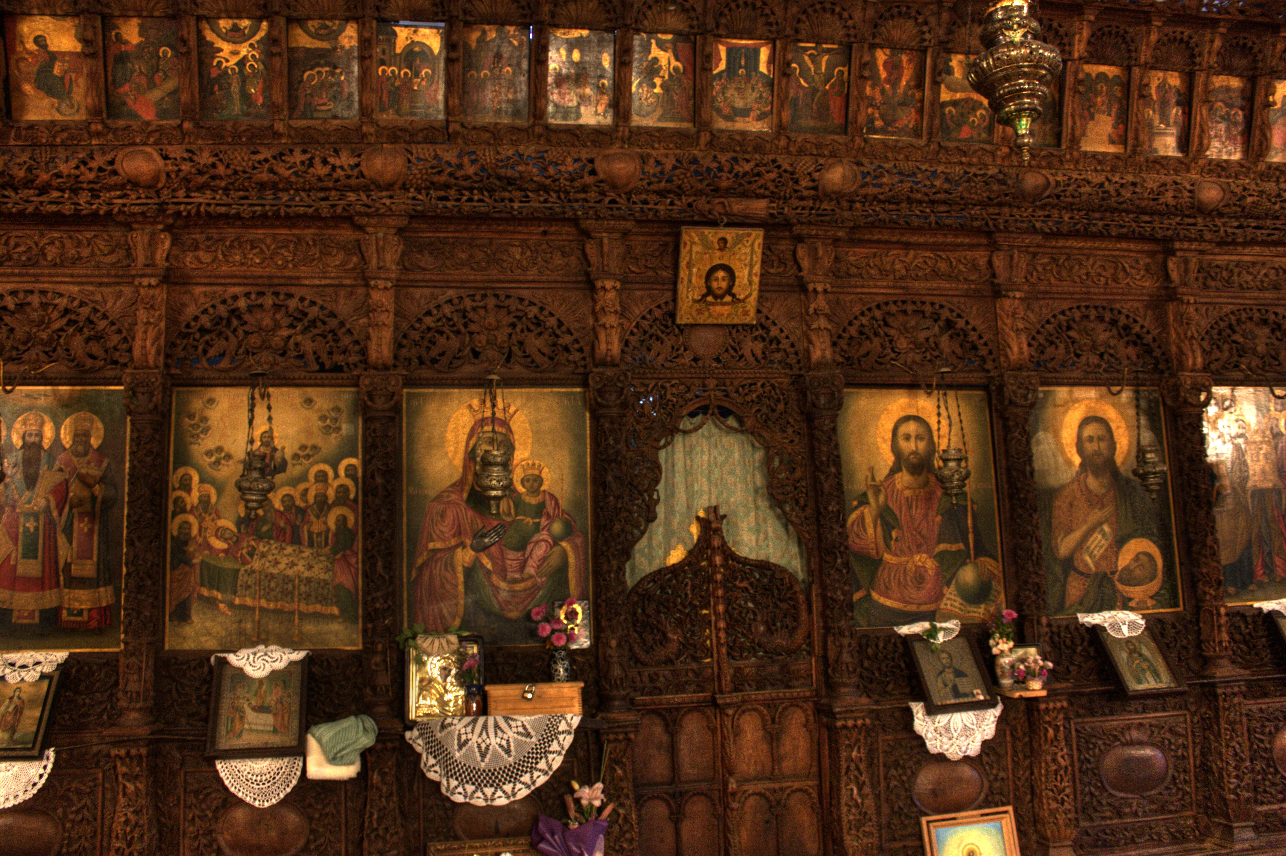 The Dorminion of the Theotokos church at the Bulgarian village Koprivshtitsa. Успение на Св. Богородица.